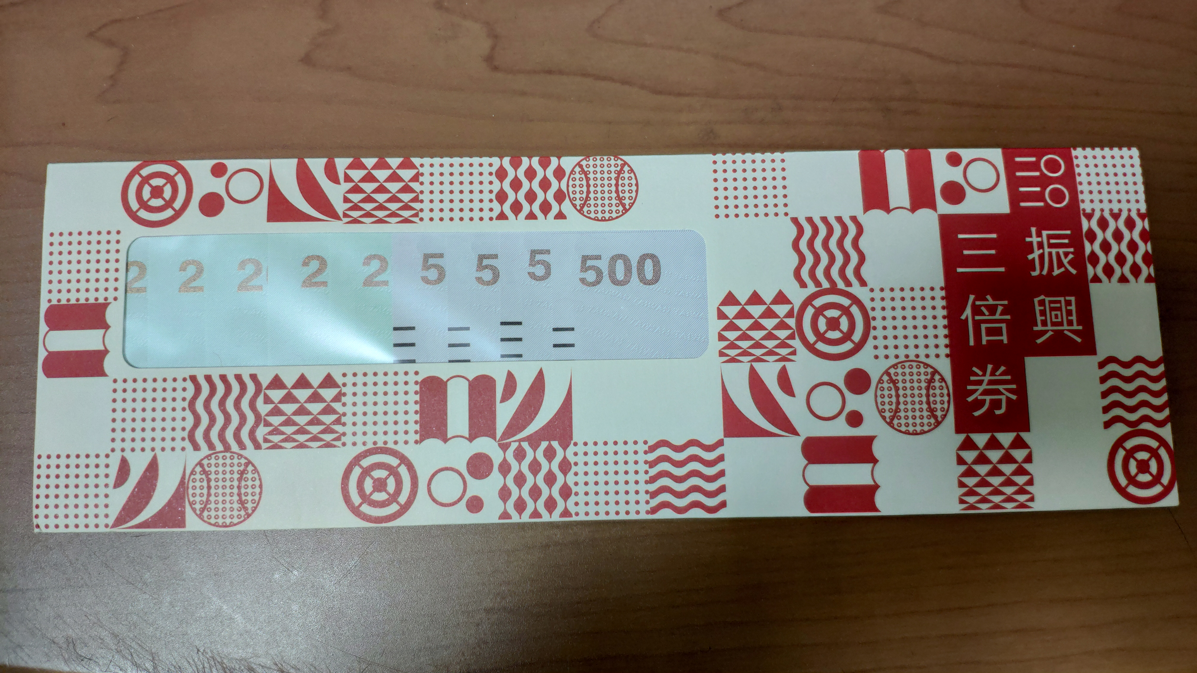 Triple Stimulus Vouchers is the official voucher used in Taiwan(R.O.C.) from July 15 to December 31, 2020. About 6 months. A 200-point voucher equals NT$200, and a 500-point equals NT$500. The total voucher is 3000 points(NT$3000), 5 200-point vouchers and 4 500-point.